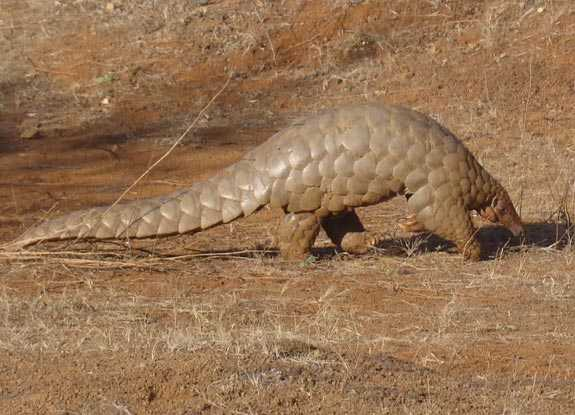 Pangolin found in Gir Forest, Gujarat, India